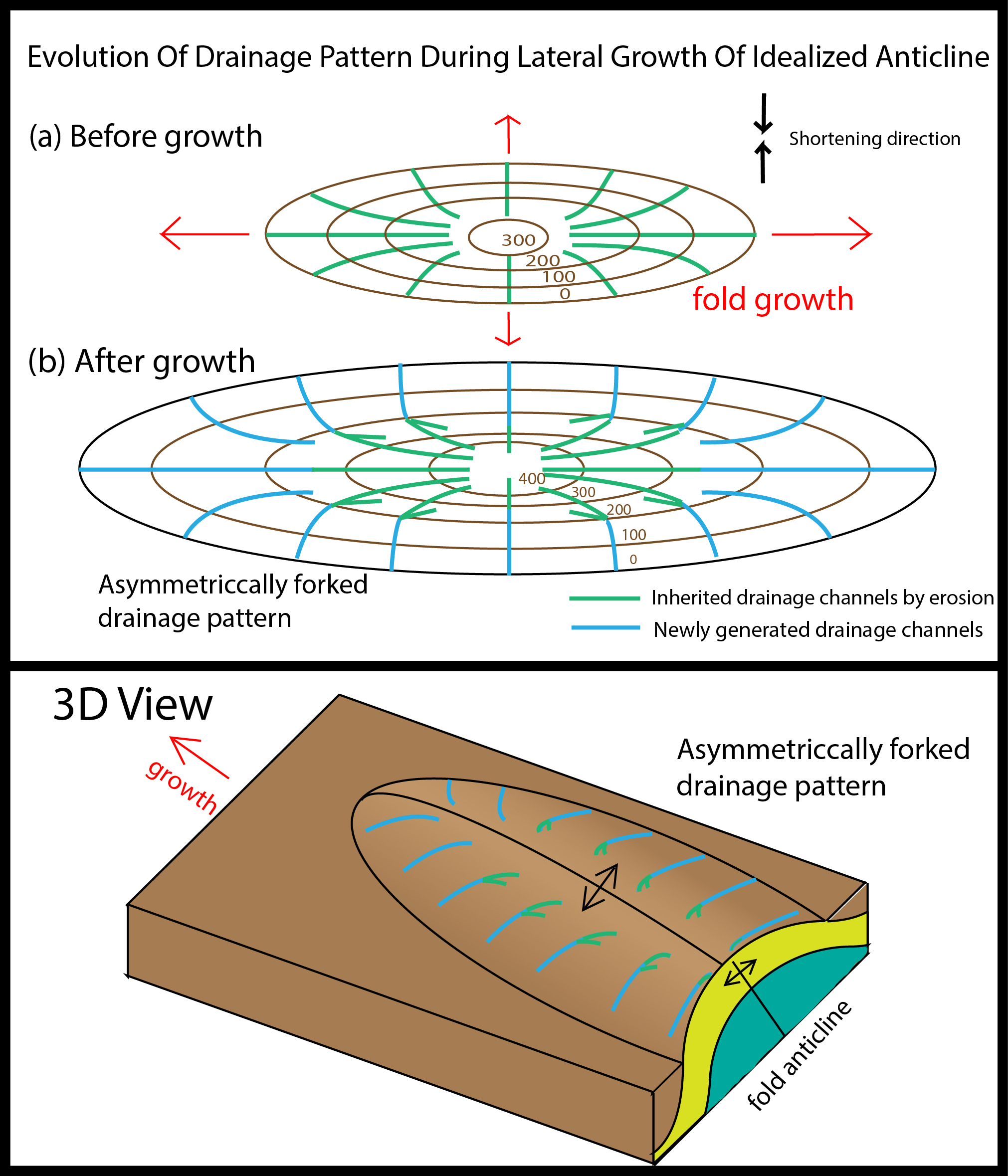 Schematic diagram showing characteristic asymmetric forked drainage pattern